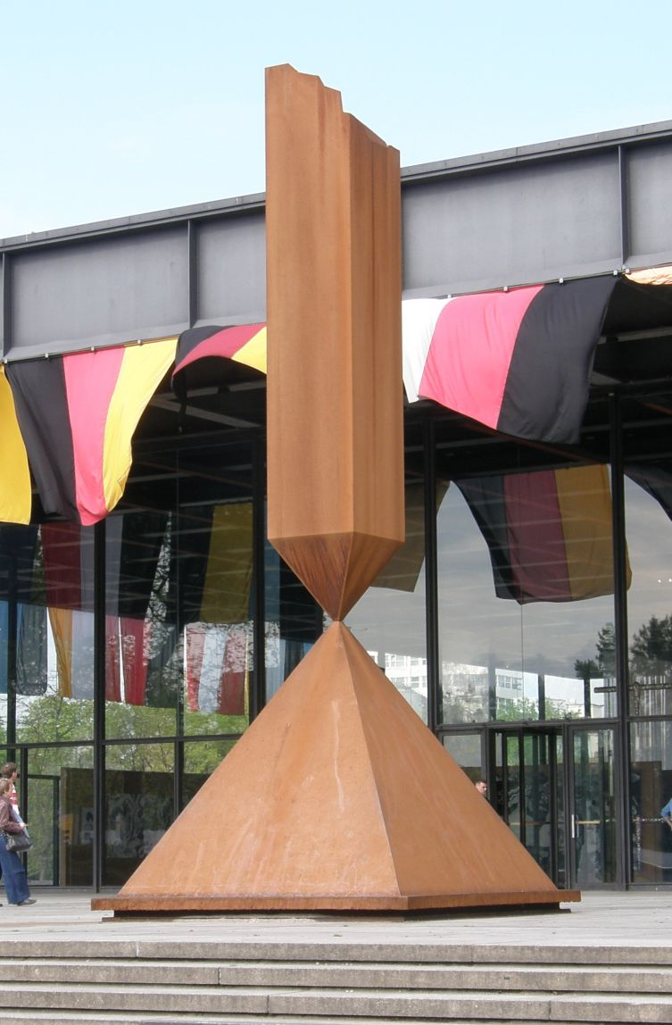 Barnett Newman's Broken Obelisk in front of the Neue Nationalgalerie in Berlin.